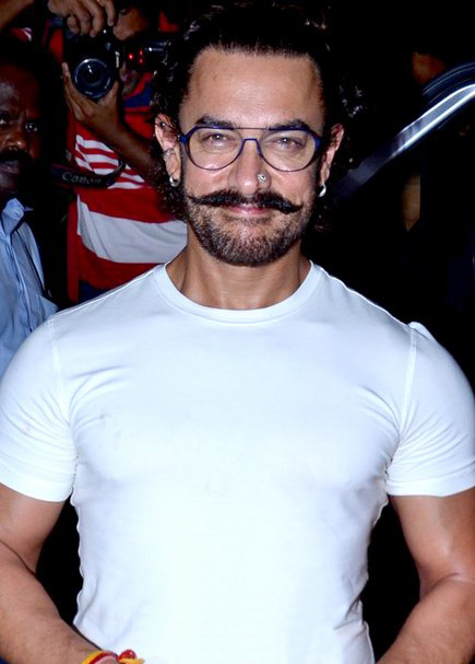 Aamir Khan Aamir Khan after a spa session in Bandra.